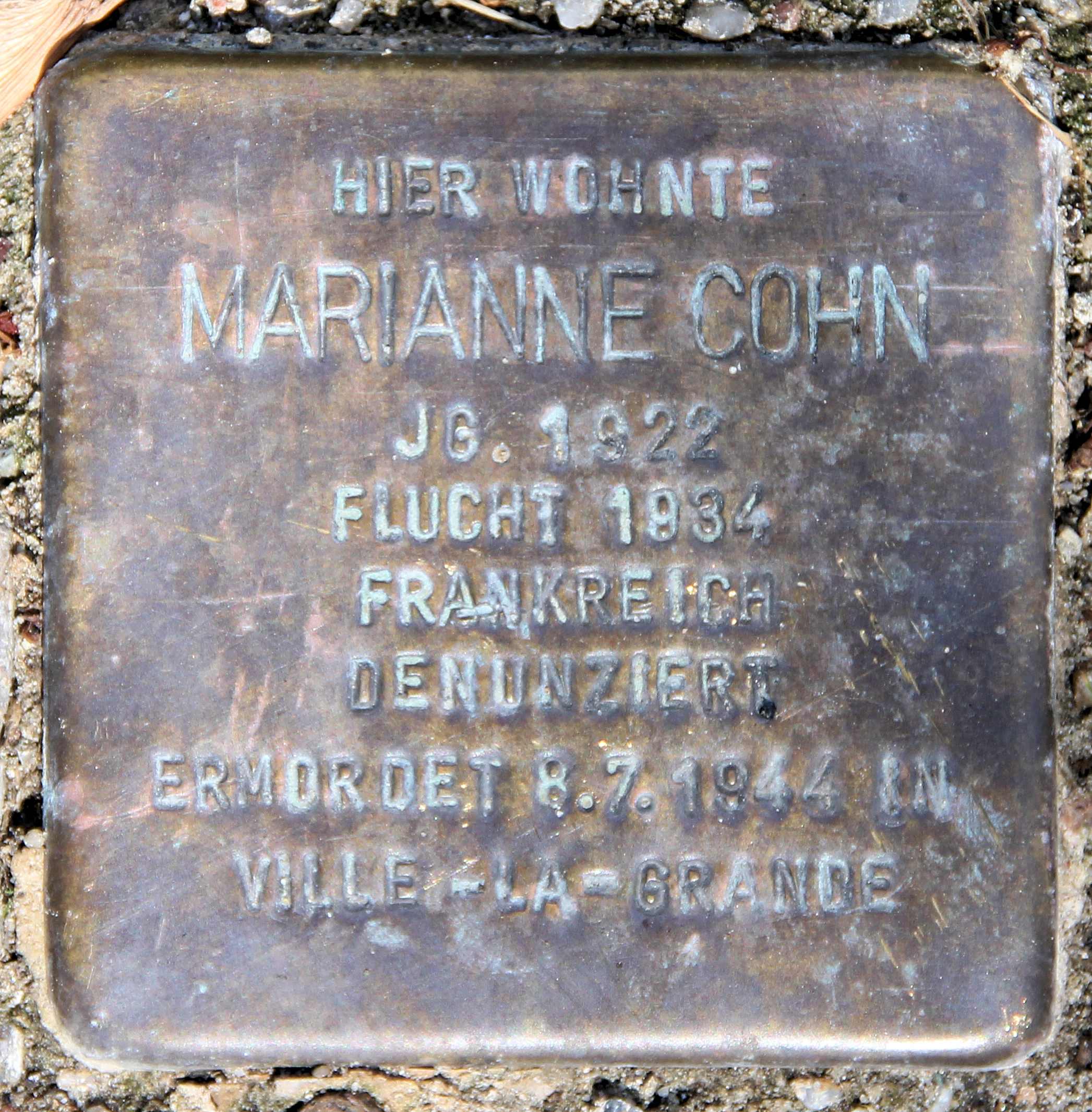 "stumbling block", Marianne Cohn, Wulfila Ufer 52, Berlin-Tempelhof, Germany Koordinate:52°27′1″N 13°22′18″E / 52.45028°N 13.37167°E